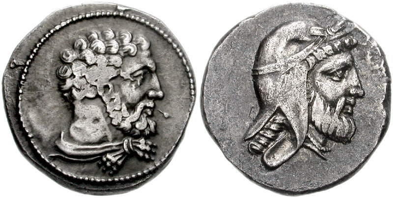 CILICIA, Mallos. Tiribazos. Satrap of Lydia, 388-380 BC